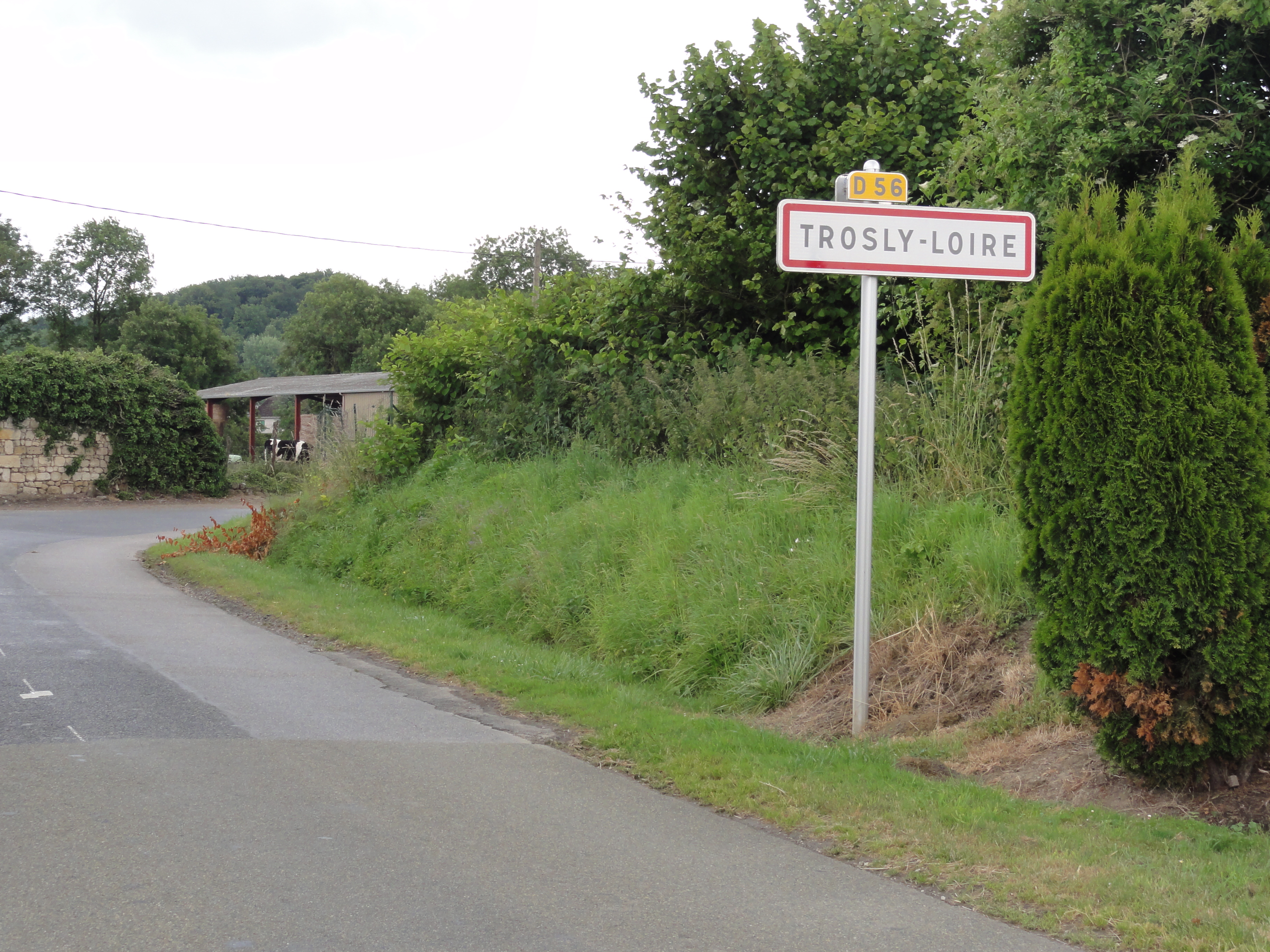 Trosly-Loire (Aisne) city limit sign